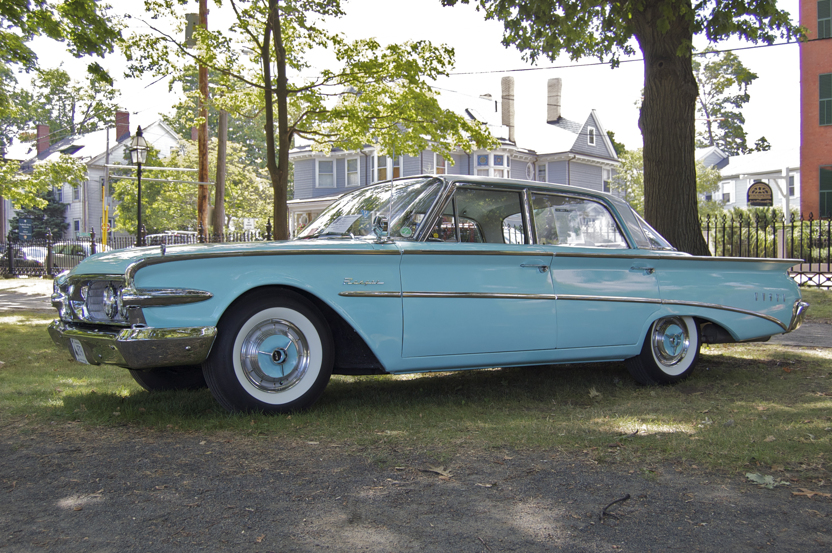 An Edsel Ranger (1960 model year) sedan seen at a car show in Salem, Massachusetts